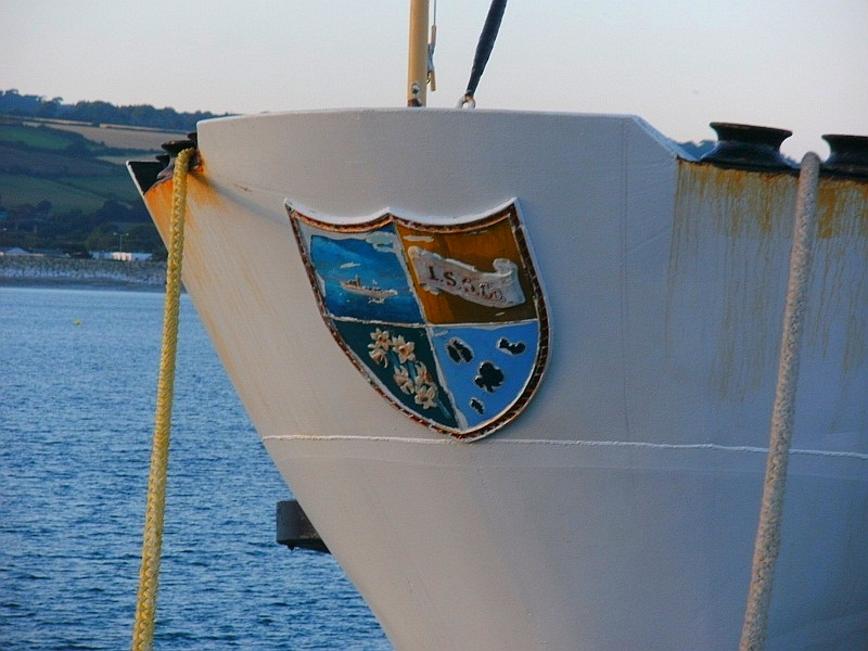 Photograph taken by Dr CR Seddon: coat of arms of the Isles of Scilly Steamship Company as displayed on Scillonian III's bow. The shield depicts Scillonian III's predecessor Scillonian II, a scroll with the initials of the Isles of Scilly Steamship Company, daffodils and the Isles of Scilly themselves.